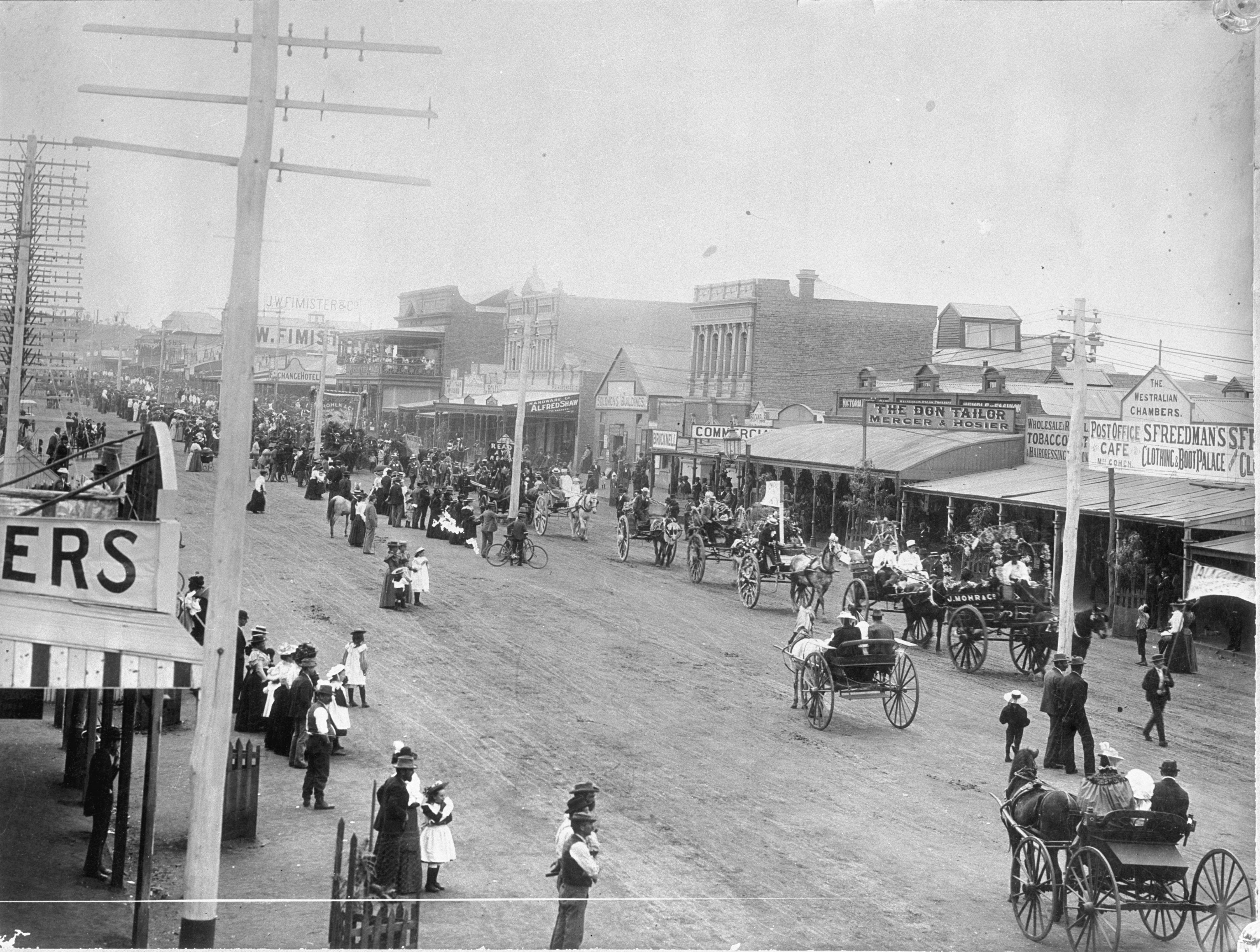 Crowd watching a parade in Hannan Street, Kalgoorlie, circa 1901